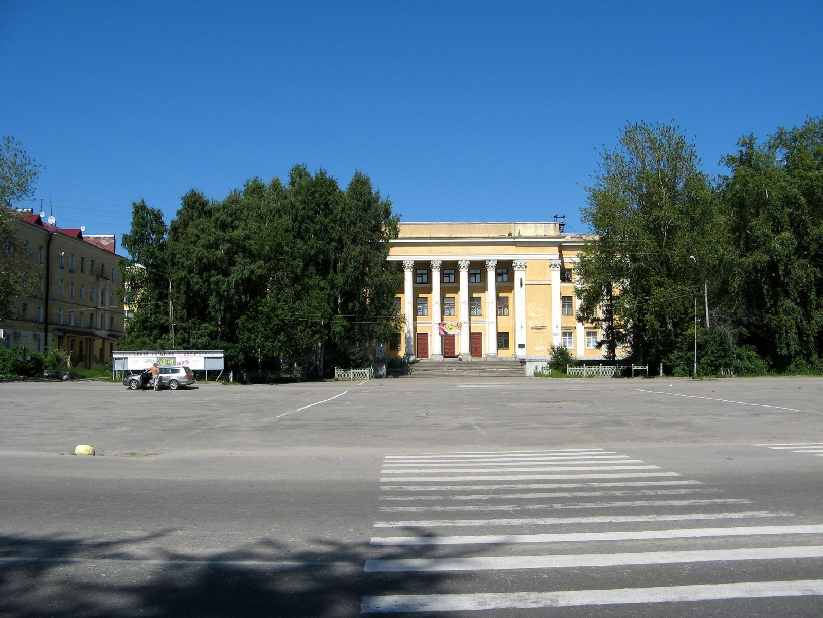 Palace of culture in Segezha